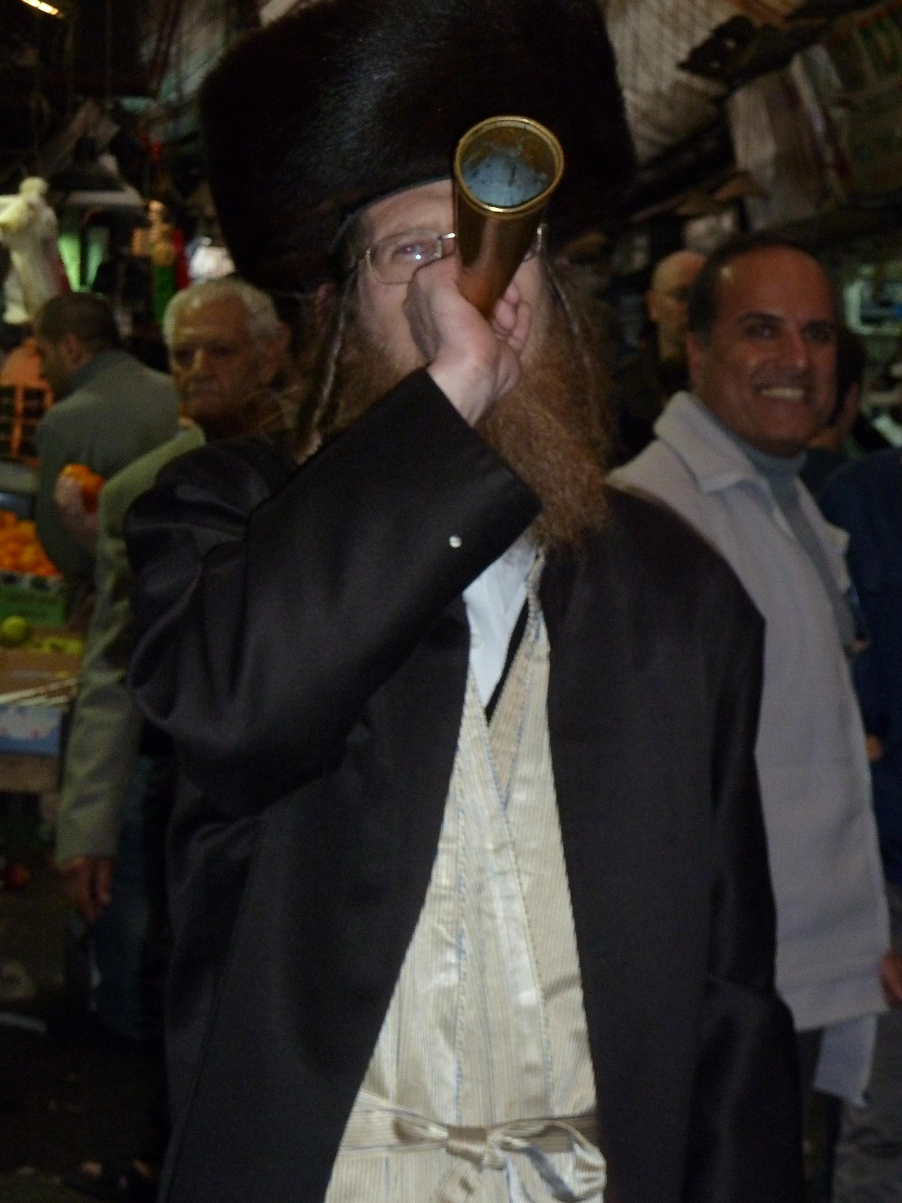 Jerusalem Mahane Yehuda Market Shabbat trumpeting